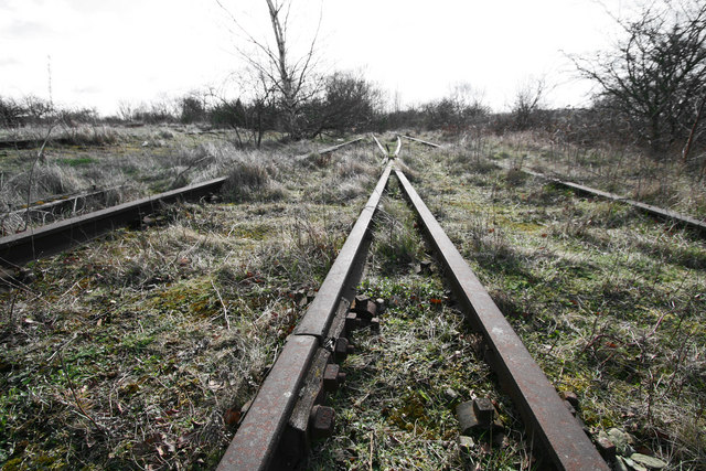 Colwick Sidings Once the second largest marshalling yard in the country